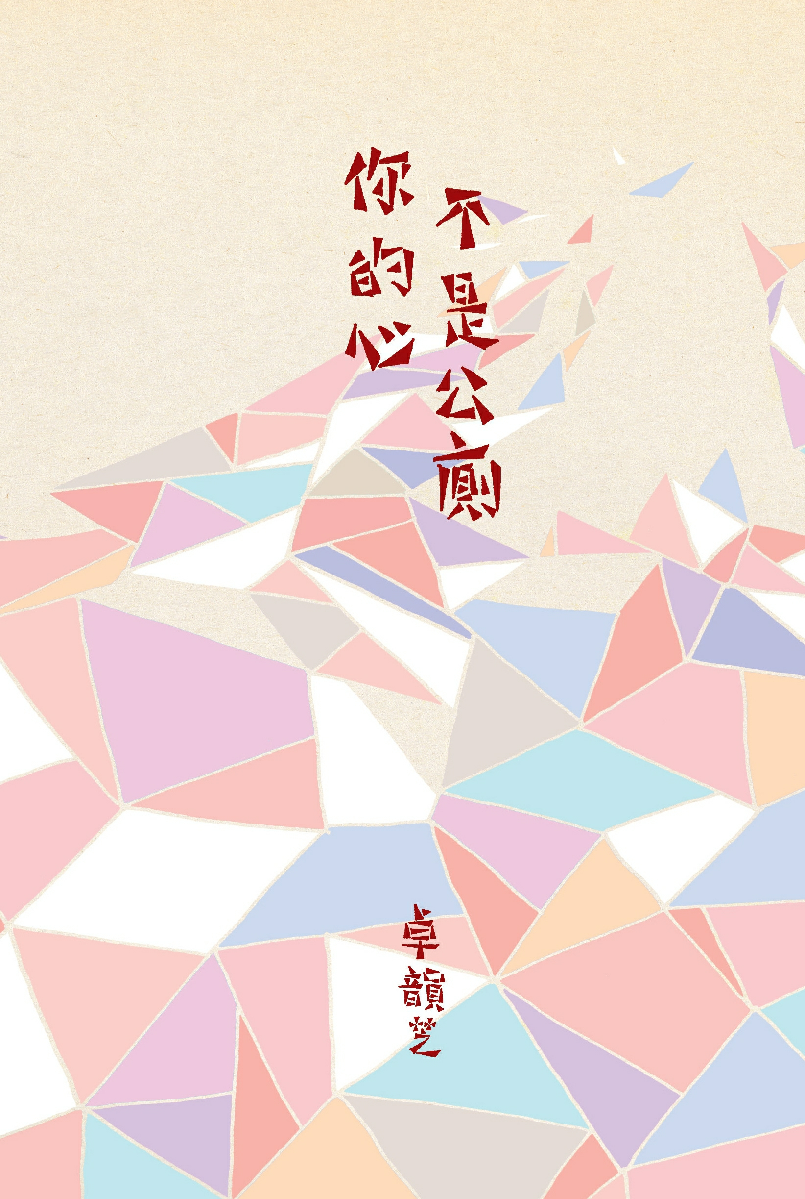 散文系列： 你的心不是公廁 (2010) 榮獲第23屆好書龍虎榜十大 出版社：明窗 ISBN 978-988-8027-73-6 Prose series: Your Heart Is Not Public Toilet (2010) Book Prize-HKPTU BEST TEN BOOKS ELECTION 2012 Press: Ming Pao Enterprise Corporation